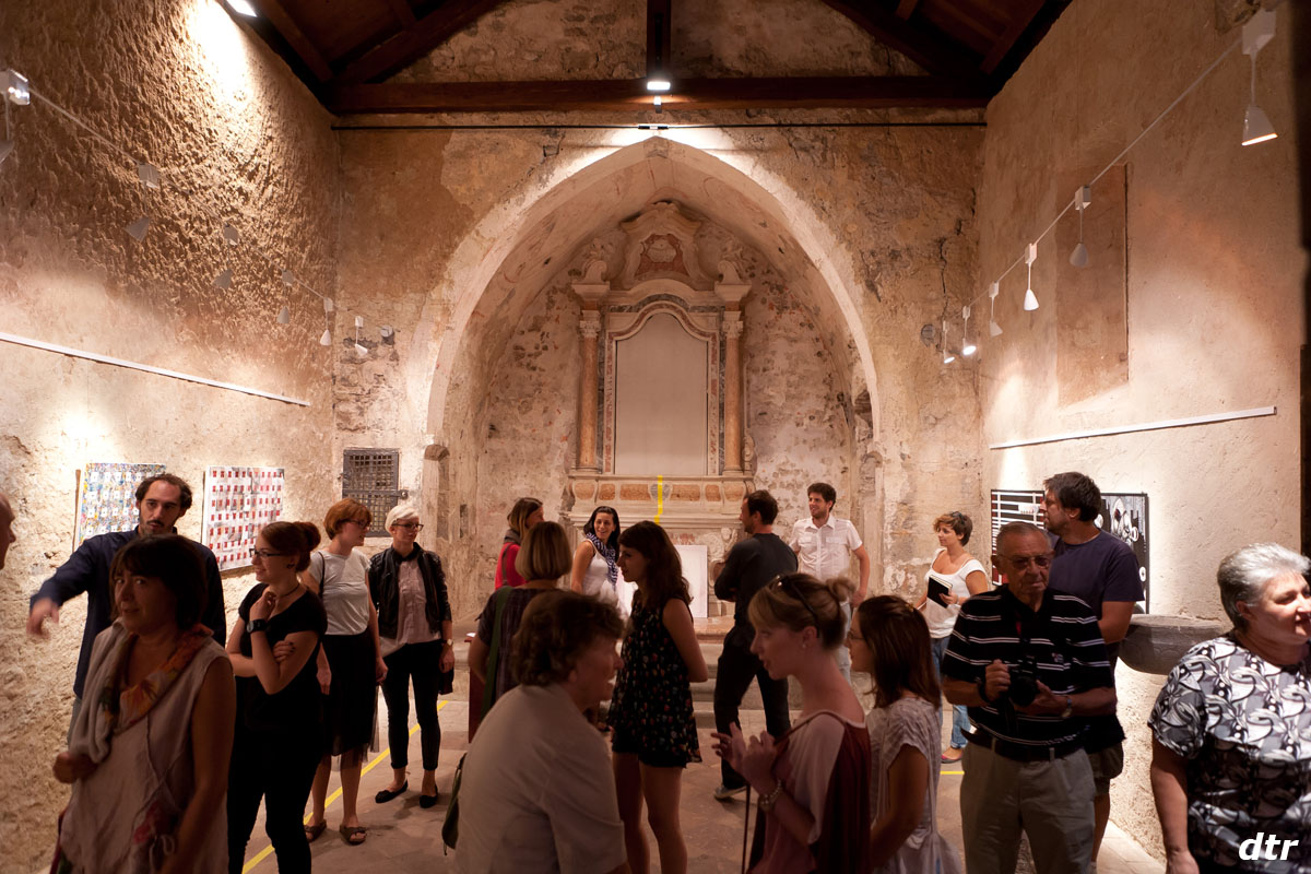 One of the exhibitions in the Sv. trojica Gallery